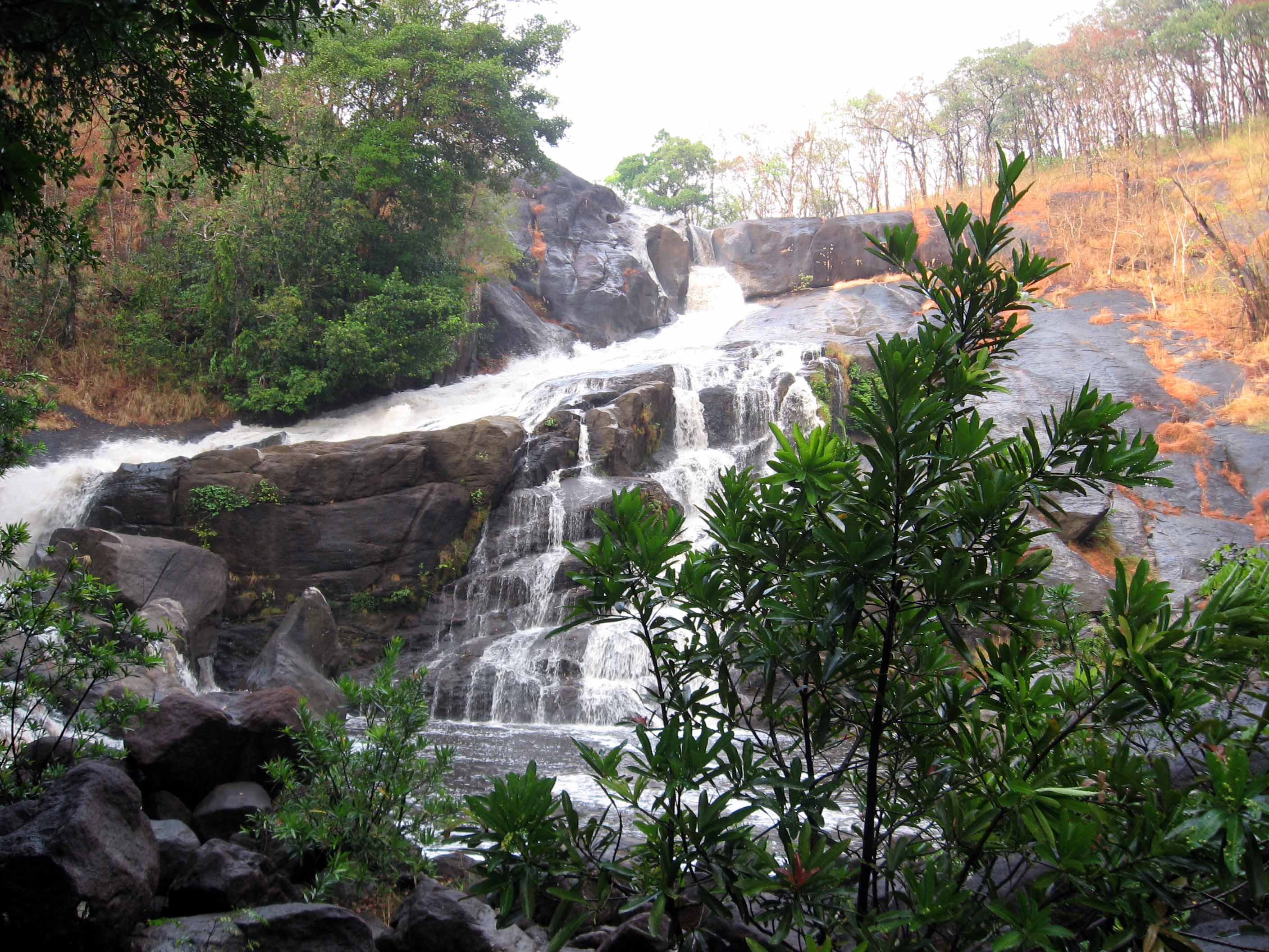 Meenmutty falls is on the Neyyar Dam-Agastyakoodam trek path.It is a magnificient sight.Slippery rocks can be a little dangerous and you must use utmost caution while trying to have a dip in the river.The waterfalls can be viewed from the top as well giving two different perspective for the same waterfall."Meenmutty" in Malayalam means "the end of the way for fish".The fishes can no more move upstream since the water cascades from a height. The picture was taken in February 2007 by V S Sankar